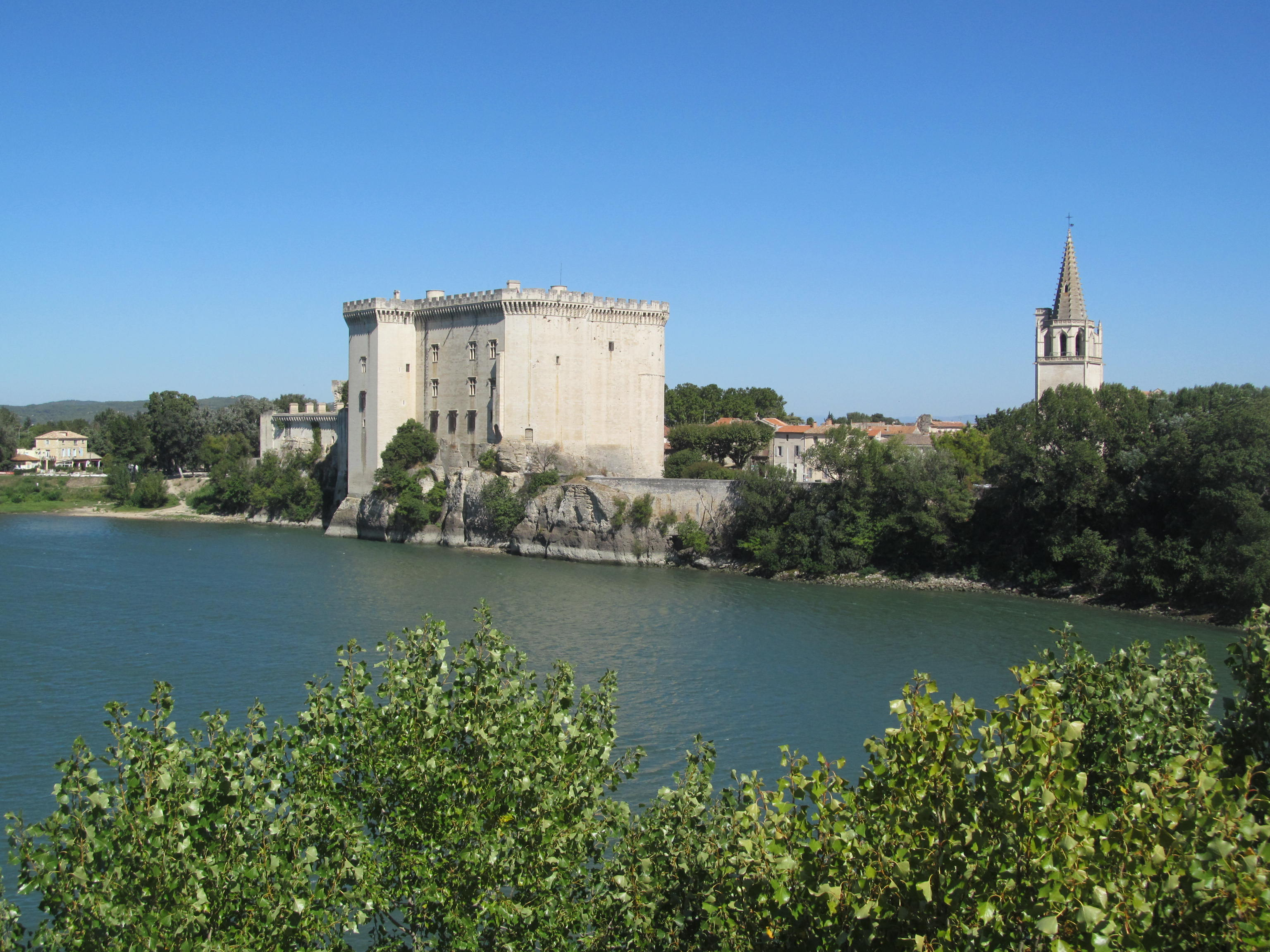 Tarascon Castle over Rhona